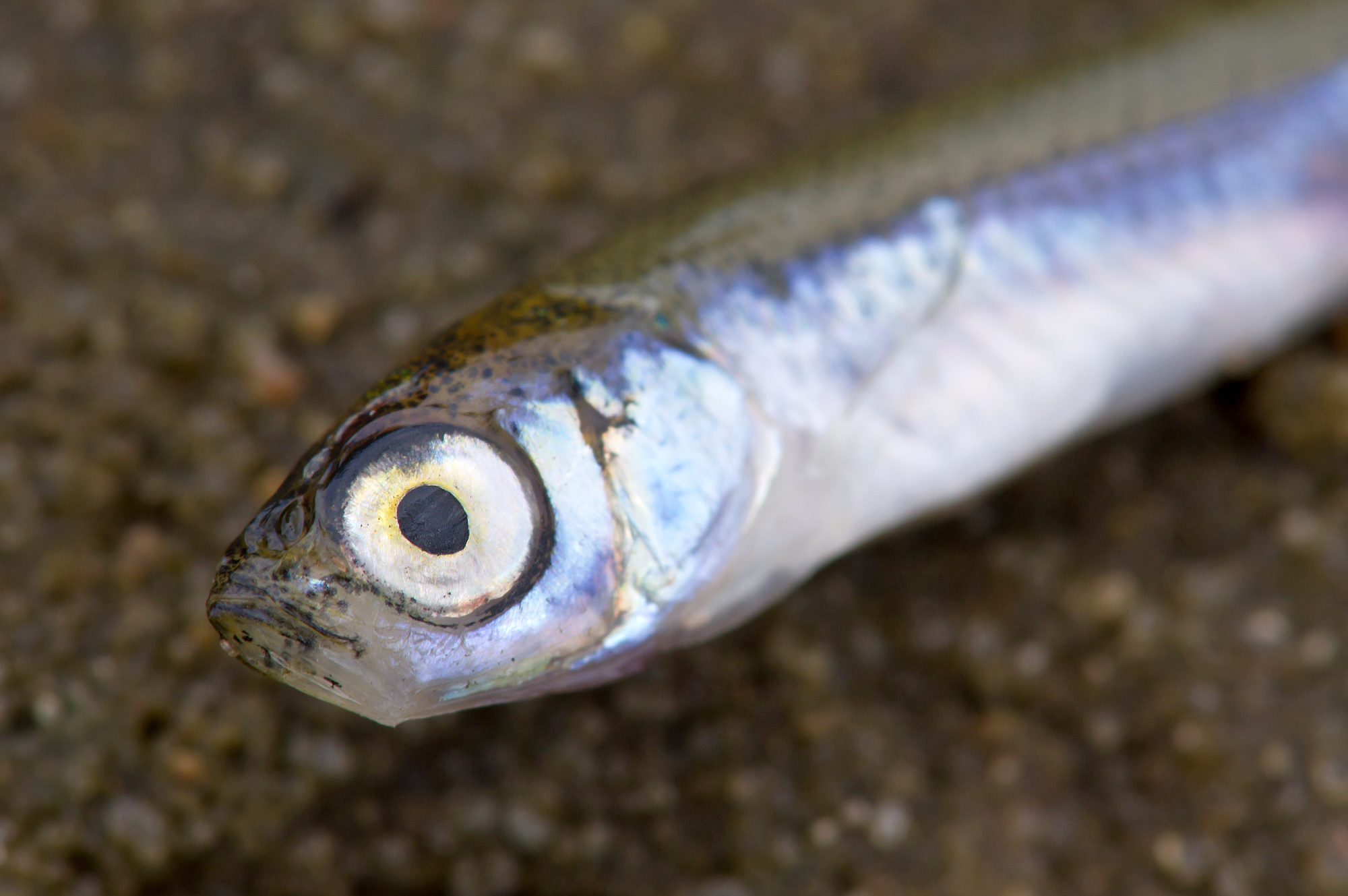 Young specimen of Leucaspius delineatus beyond the water; found dead, about 3 cm in length. The eye has a diameter of slightly more than 2 mm.